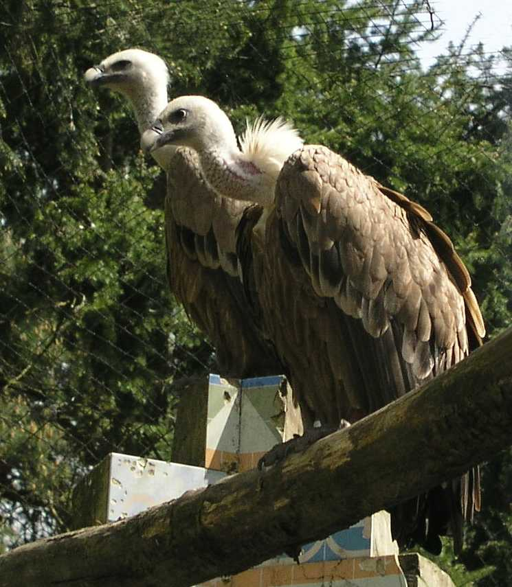 Eurasian Griffon Vulture (also known as Griffon Vulture) in Zoo Amersfoort, the Netherlands